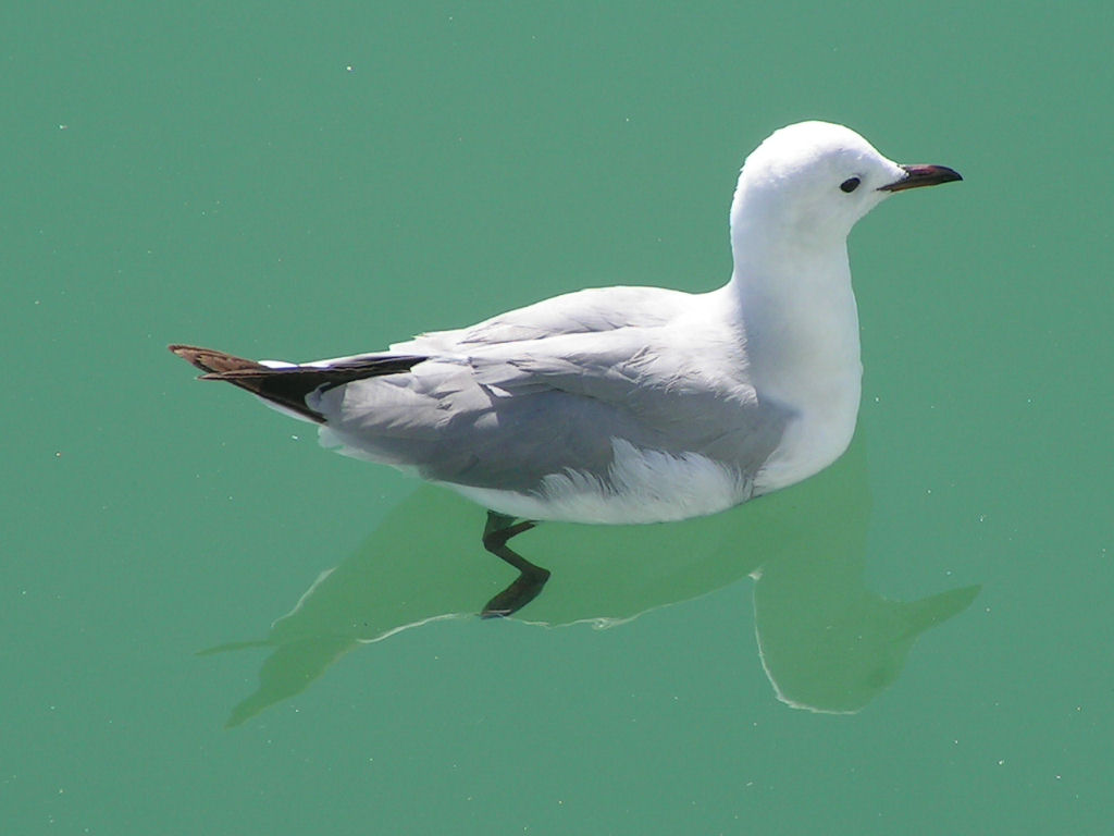 Hartlaub's Gull (Chroicocephalus hartlaubii), Cape Town, South Africa